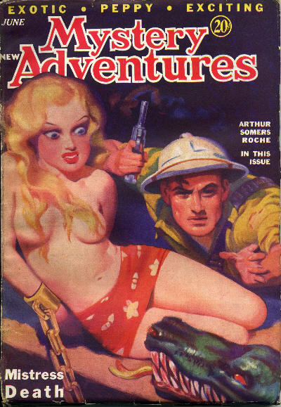 New Mystery Adventures, May-June 1935